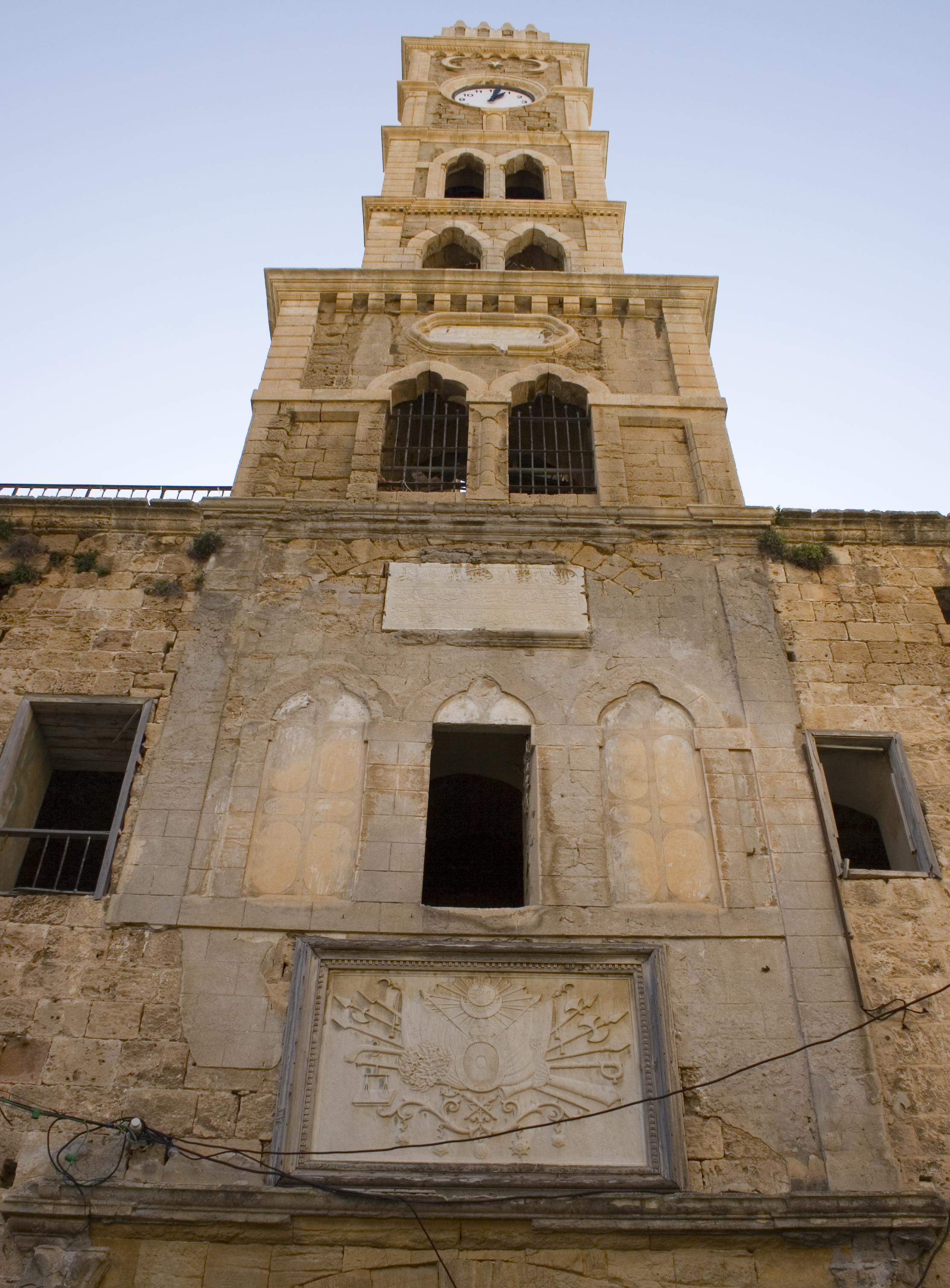 The clock tower in Han El Umdan, Akko, Israel Click here to see where this photo was taken.Acre (Akko) - Han El Umdan